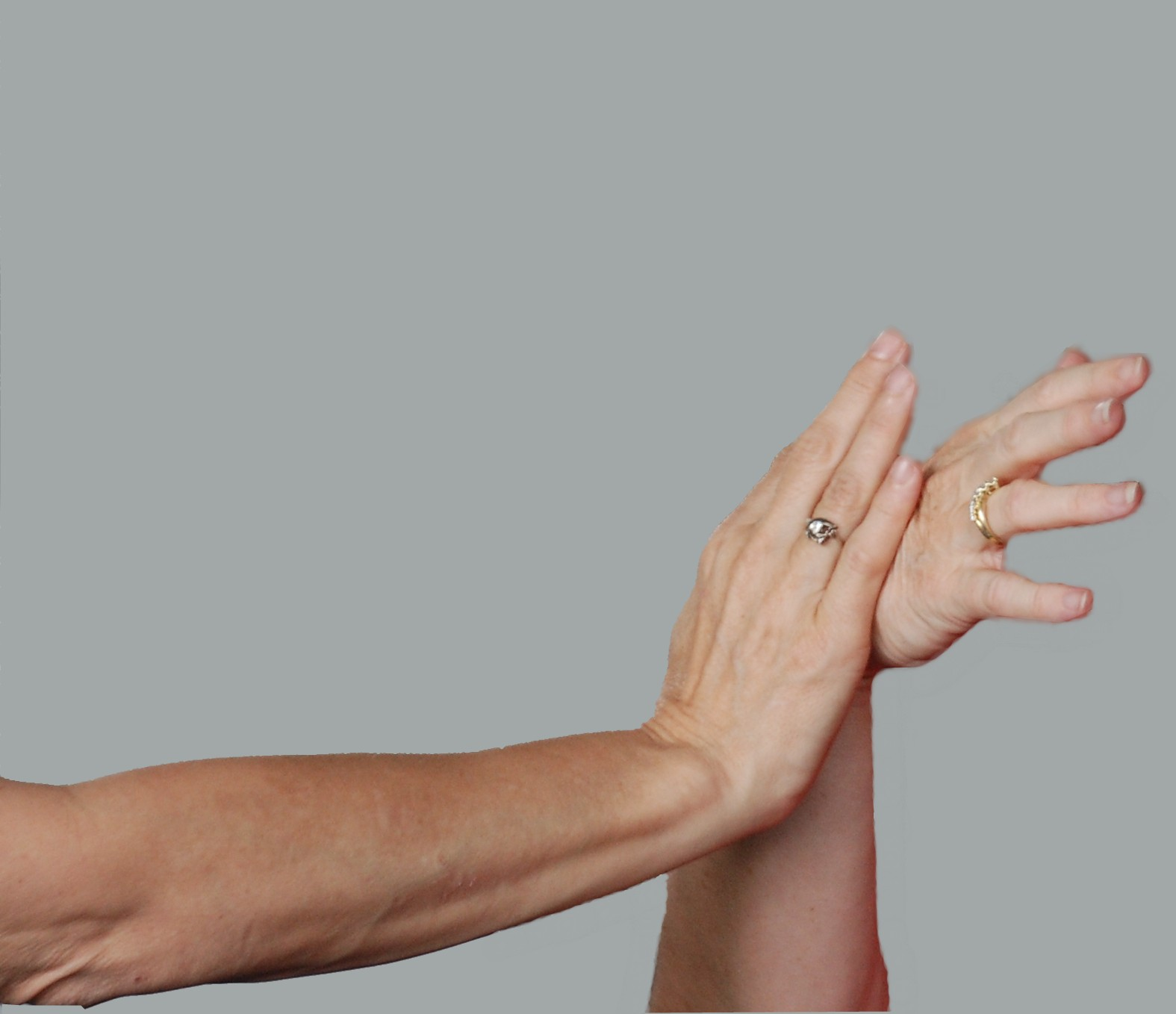 Close-up of the Push hands exercise in a Tai Chi class.